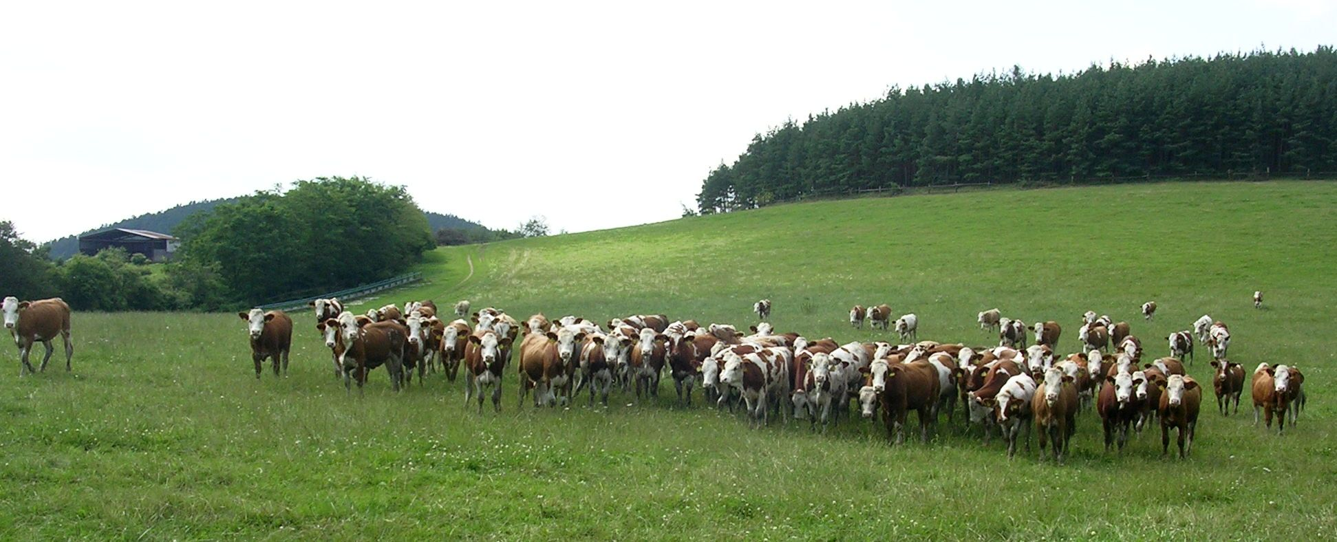 Krásná Hora nad Vltavou-Plešiště, Příbram District, Central Bohemian Region, the Czech Republic.